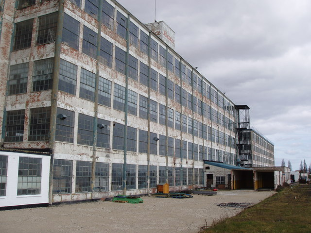 Derelict factory